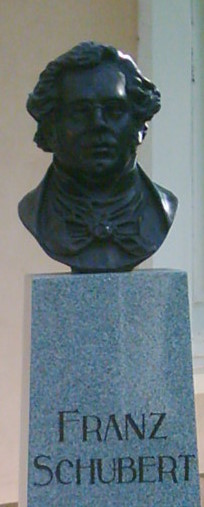 Bust of Franz Schubert in Želiezovce